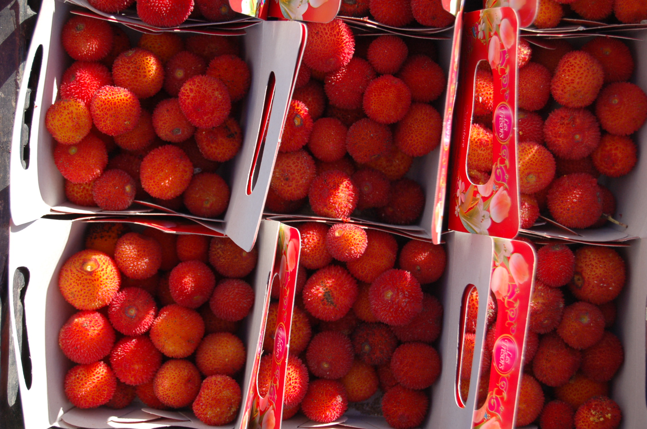 Arbutus fruits sold near Oran (Algeria)